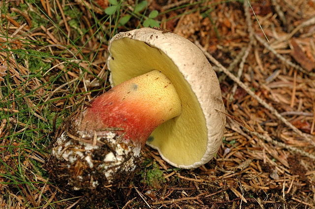 Boletus calopus from Commanster, Belgium. The determination of the species shown in this picture has been verified.